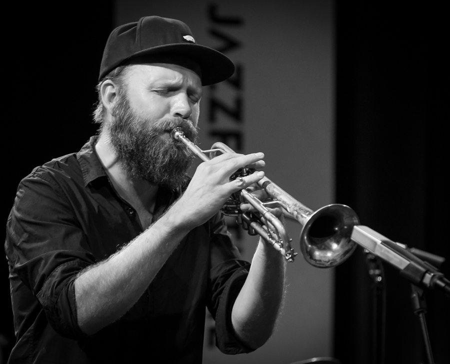 Mathias Eick at the stage of Nasjonal Jazzscene Victoria. The concert was part of the Oslo Jazz Festival in Norway and took place on 16. August 2016. Lineup: Mathias Eick (trumpet) Andreas Ulvo (piano) Håkon Aase (violin) Audun Erlien (bass guitar) Torstein Lofthus (drums)